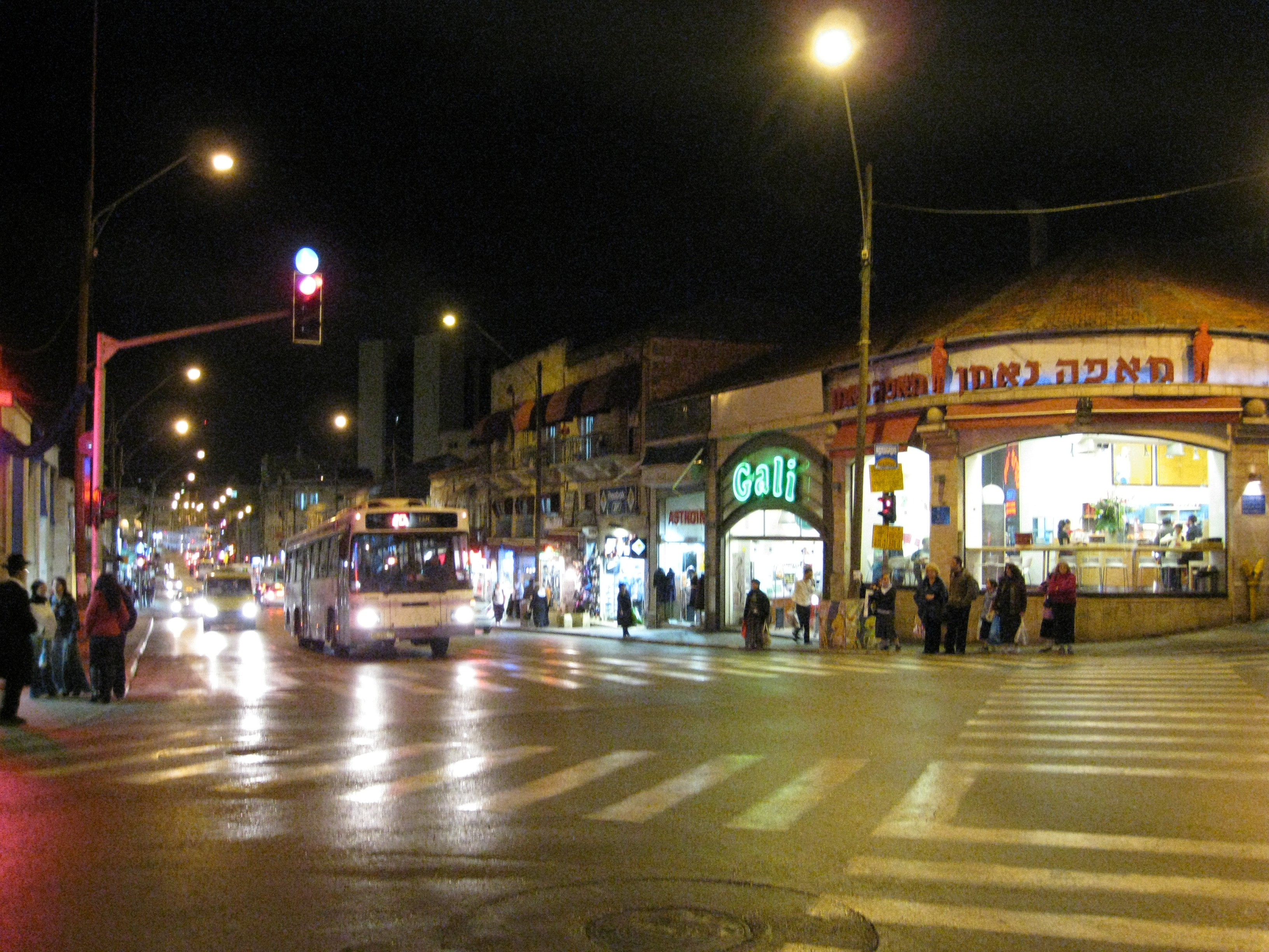 Jerusalem, Israel, corner of Jaffa Road and King George Street (looking towards south-east) Jerusalem